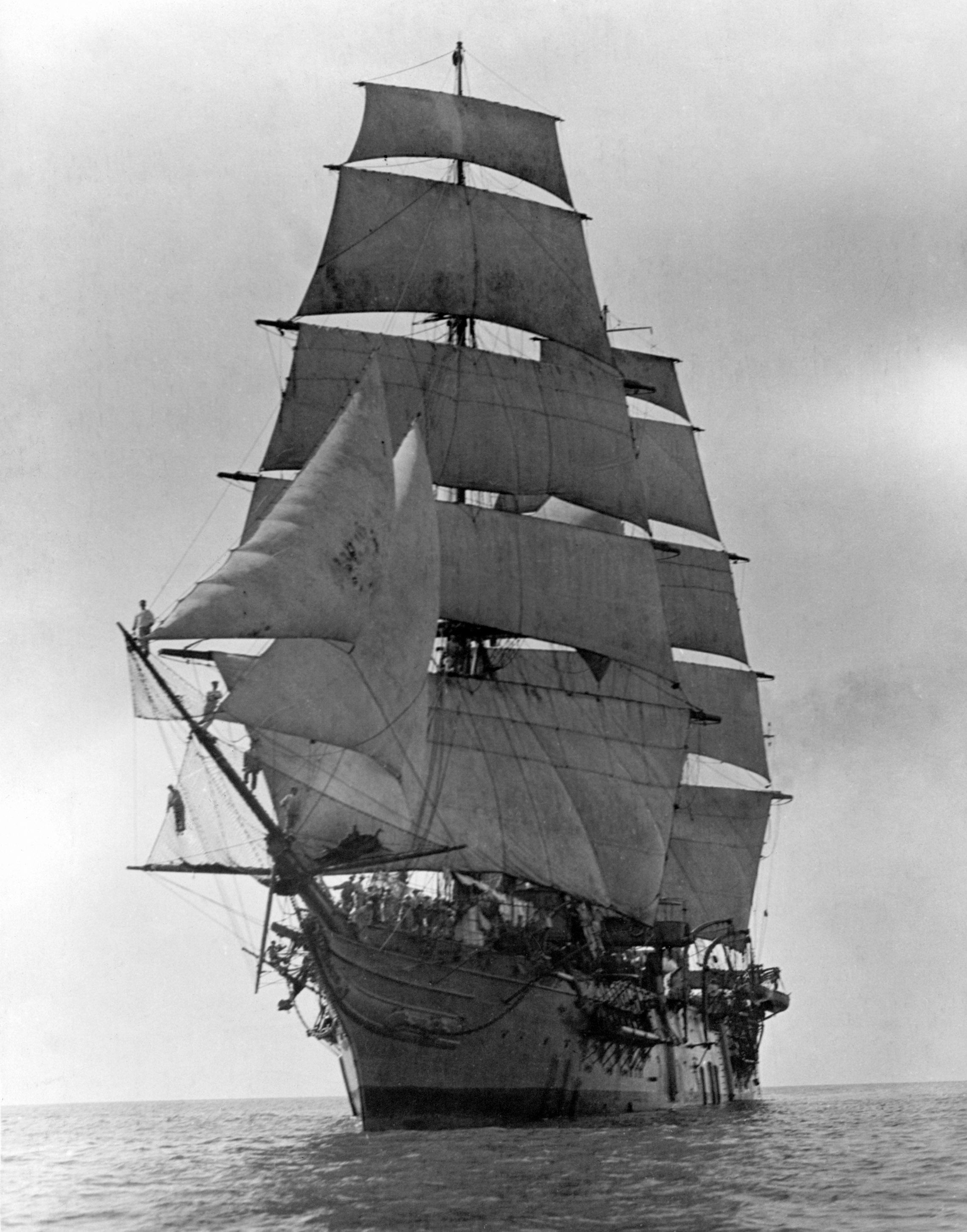 HM Ship Cristoforo Colombo. The original picture, scanned by Emiliano Burzagli, belongs to the Private archive of Burzaghi family, Italy.